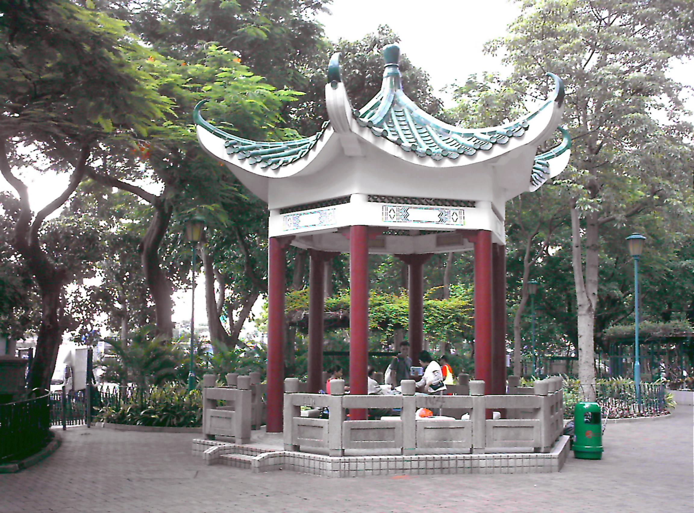 Pavilion at King George V Memorial Park, Kowloon, Hong Kong 中文（香港）: 香港，九龍佐治五世紀念公園裡的涼亭。